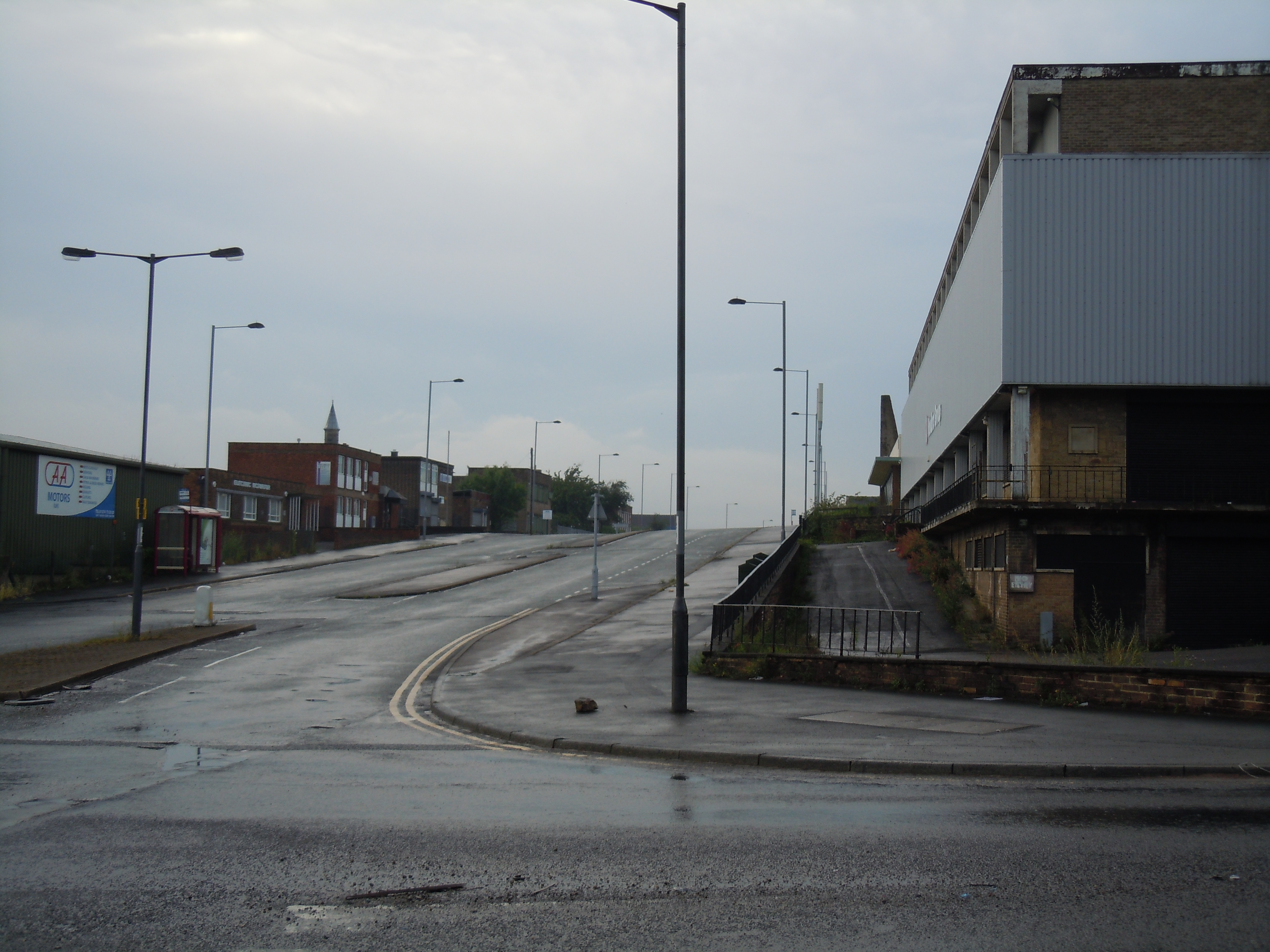 View of Bolling Road (built c 1930) in 2014, showing commercial premises.